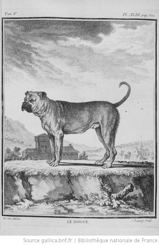 A mastiff. Le Dogue.